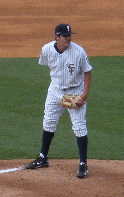 One of the Staten Island Yankee pitchers looking intently at where he is going to throw.